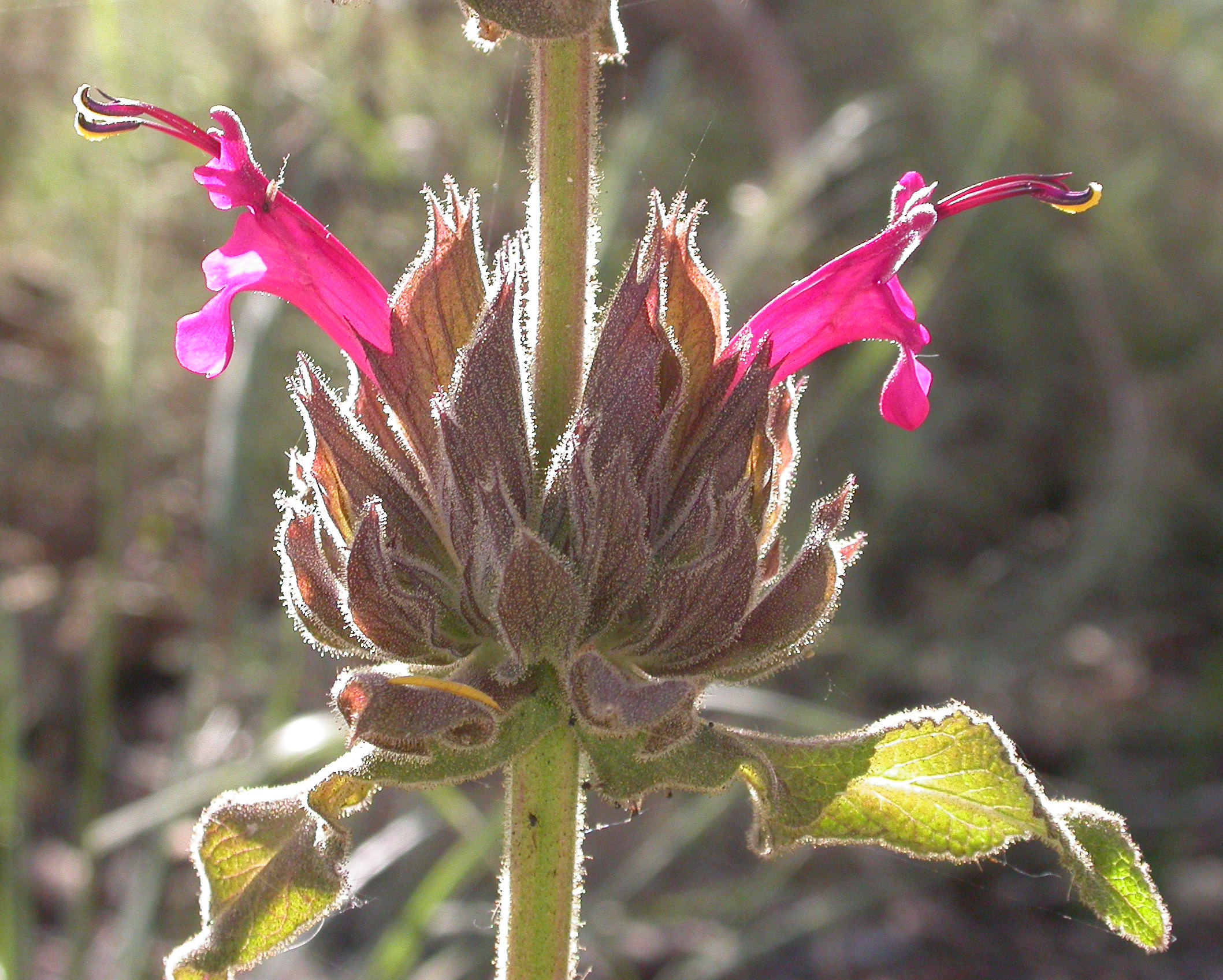 Salvia spathacea Photographed at BioTrek. Contributed and © by Curtis Clark. Licensed as noted.